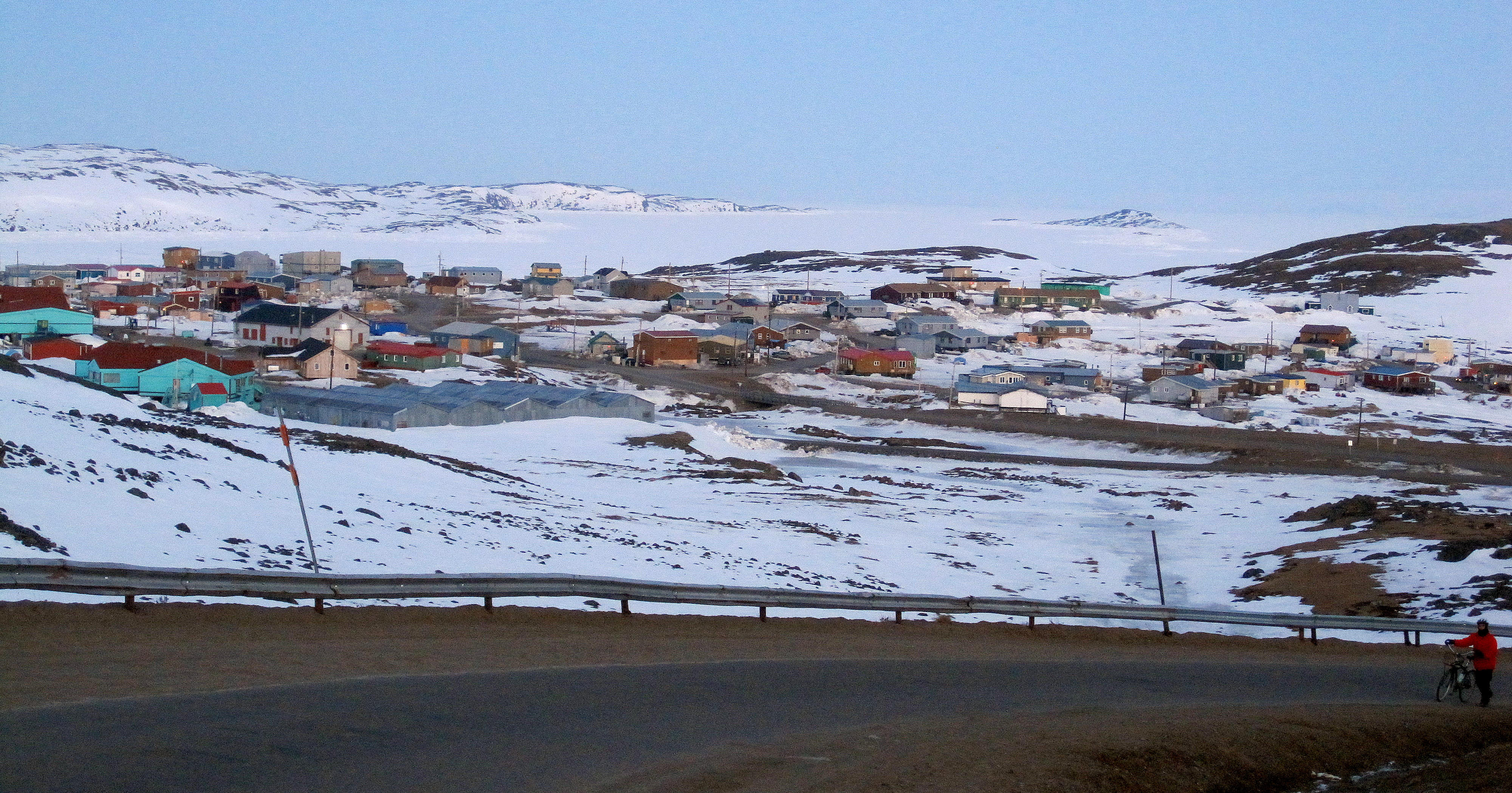 A view of Apex from the Road to Apex. Taken with Canon PowerShot SD780.